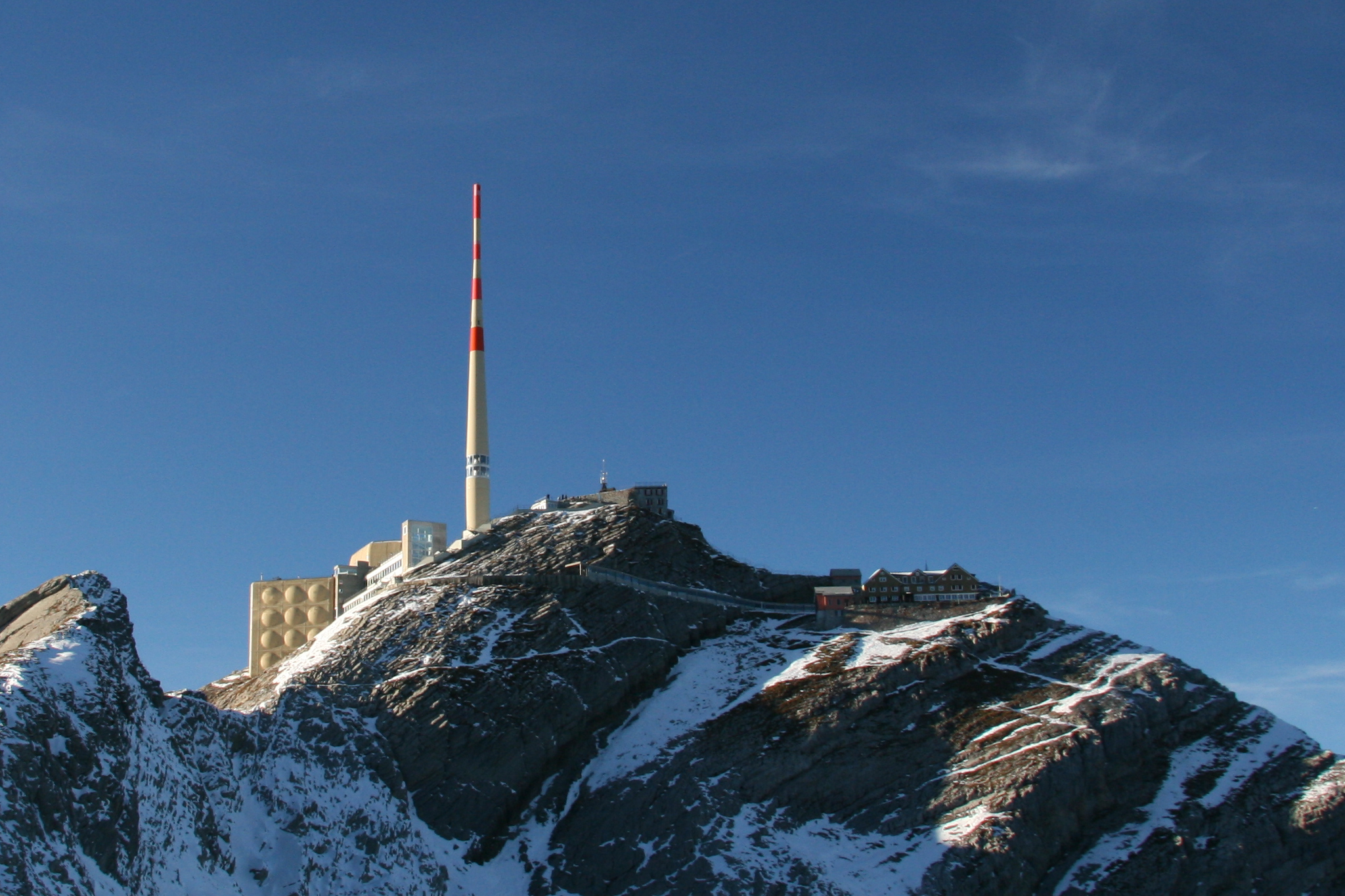 Description: New (left) and old (right) Säntis, Switzerland Source: Photograph taken on November 1, 2007 Photographer: User:Breeze